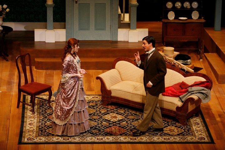 A Doll's House